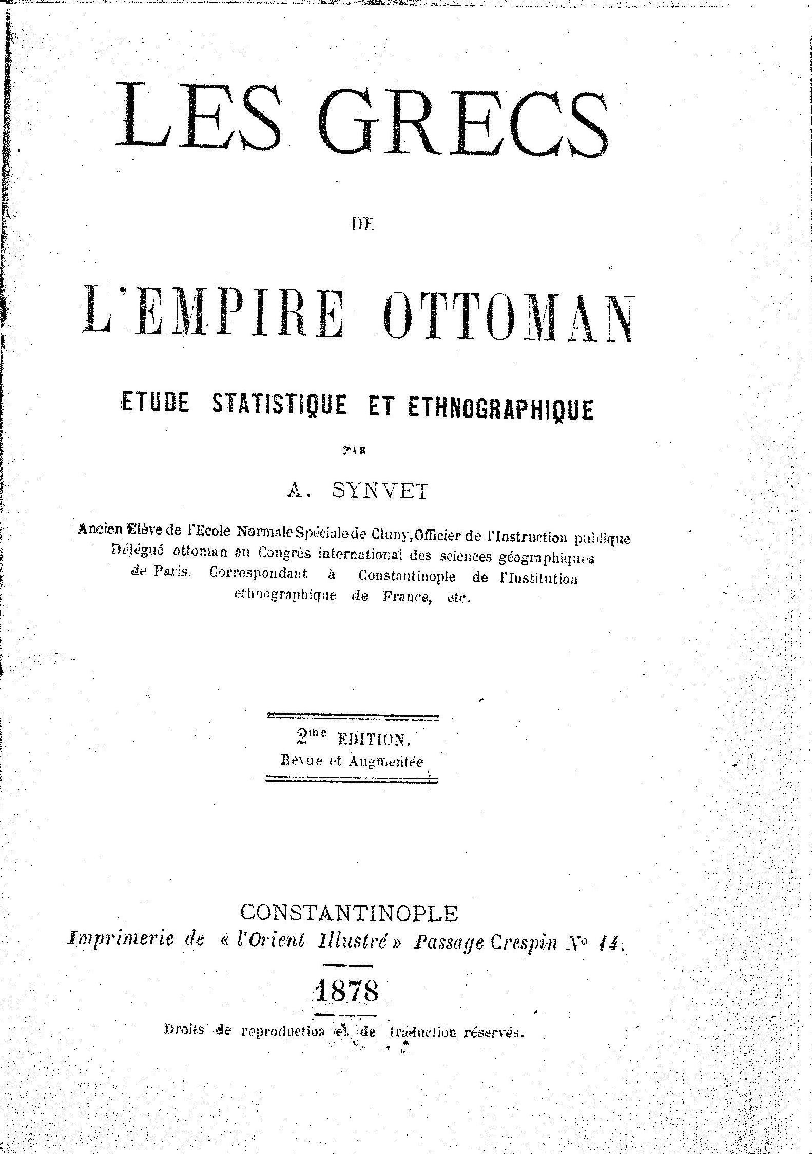 Front cover of "Les Grecs de l’Empire Ottoman. Etude Statistique et Ethnographique", Constantinople, 1878